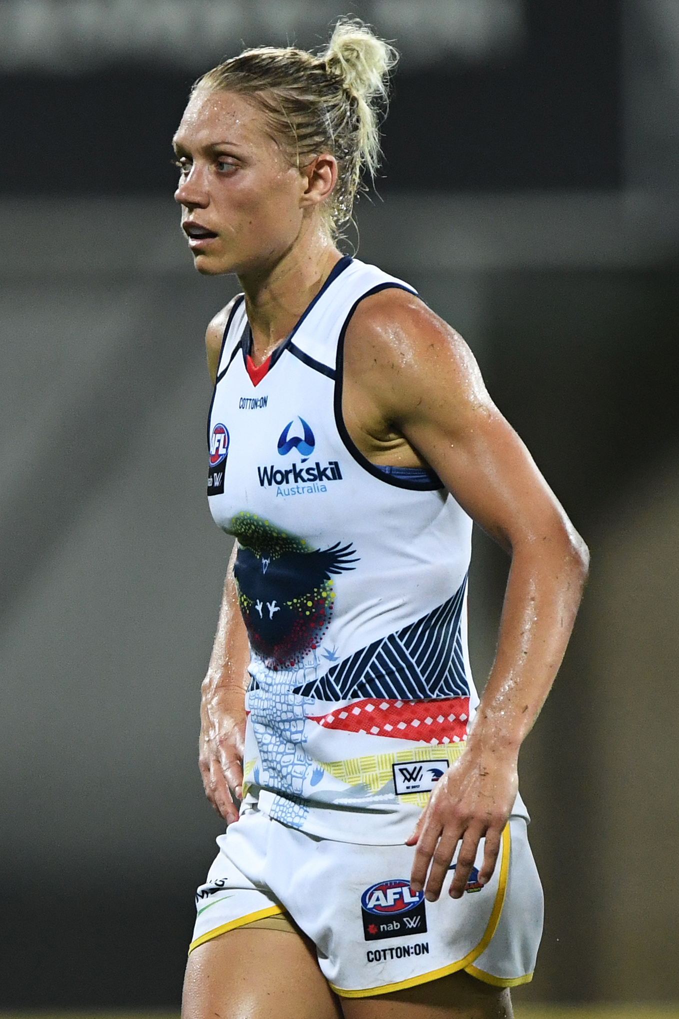 Erin Phillips of Adelaide during the 2019 AFL Women's practice match between the Adelaide Football Club and Fremantle Football Club at TIO Stadium on January 19, 2019 in Darwin Australia.